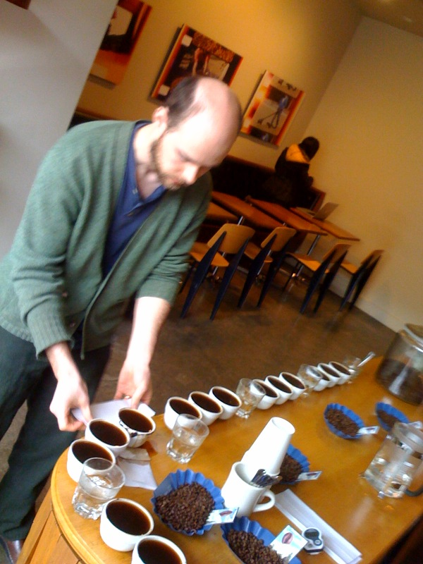 One of the daily coffee cuppings at the Stumptown Coffee Annex in Southeast Portland, Oregon.